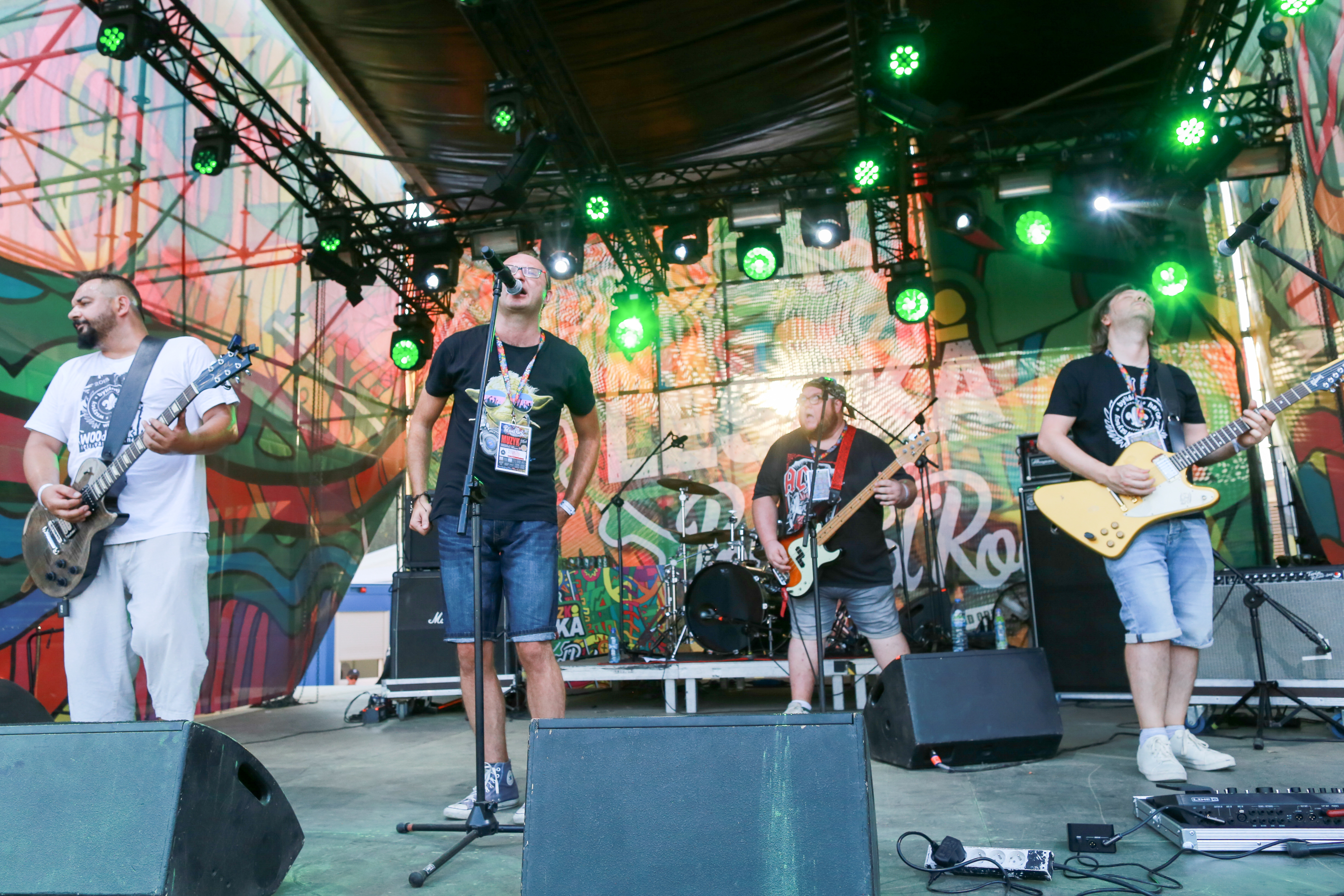 Pol'and'Rock Festival in 2018.